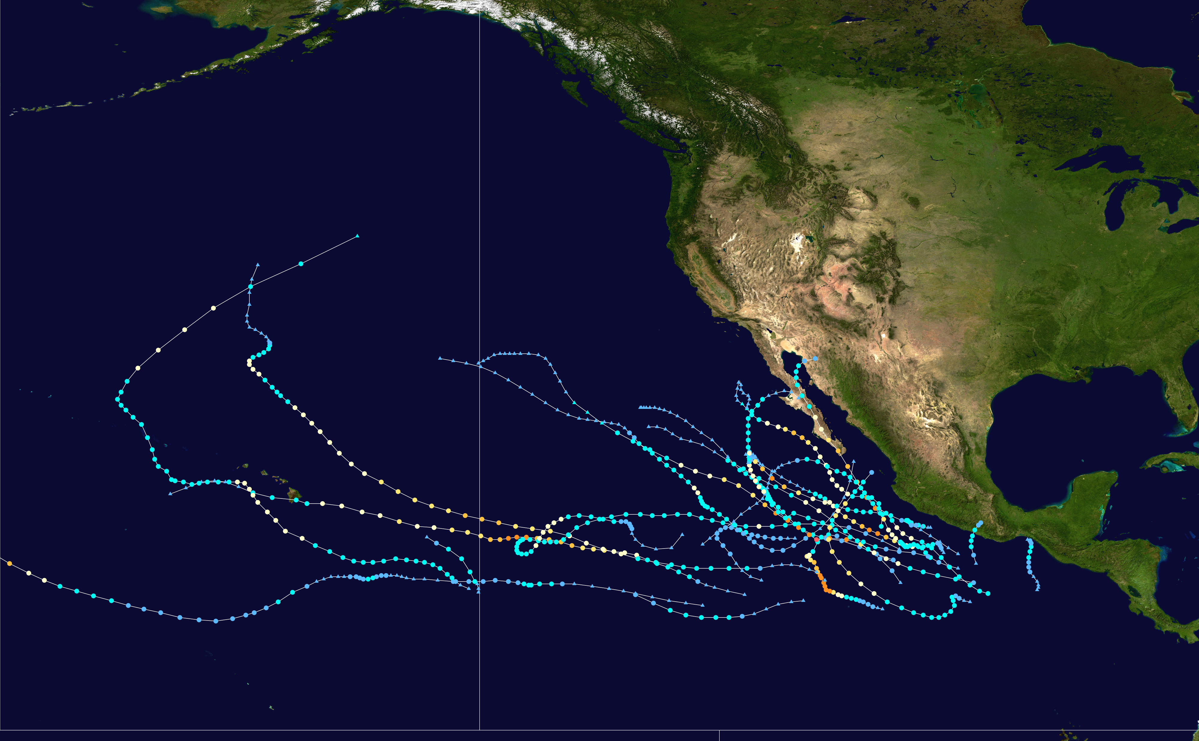 This map shows the tracks of all tropical cyclones in the 2014 Pacific hurricane season. The points show the location of each storm at 6-hour intervals. The colour represents the storm's maximum sustained wind speeds as classified in the Saffir-Simpson Hurricane Scale (see below), and the shape of the data points represent the type of the storm. Saffir–Simpson scale Tropical depression≤38 mph≤62 km/h Category 3111–129 mph178–208 km/h Tropical storm39–73 mph63–118 km/h Category 4130–156 mph209–251 km/h Category 174–95 mph119–153 km/h Category 5≥157 mph≥252 km/h Category 296–110 mph154–177 km/h Unknown Storm type Tropical cyclone Subtropical cyclone Extratropical cyclone / Remnant low / Tropical disturbance / Monsoon depression